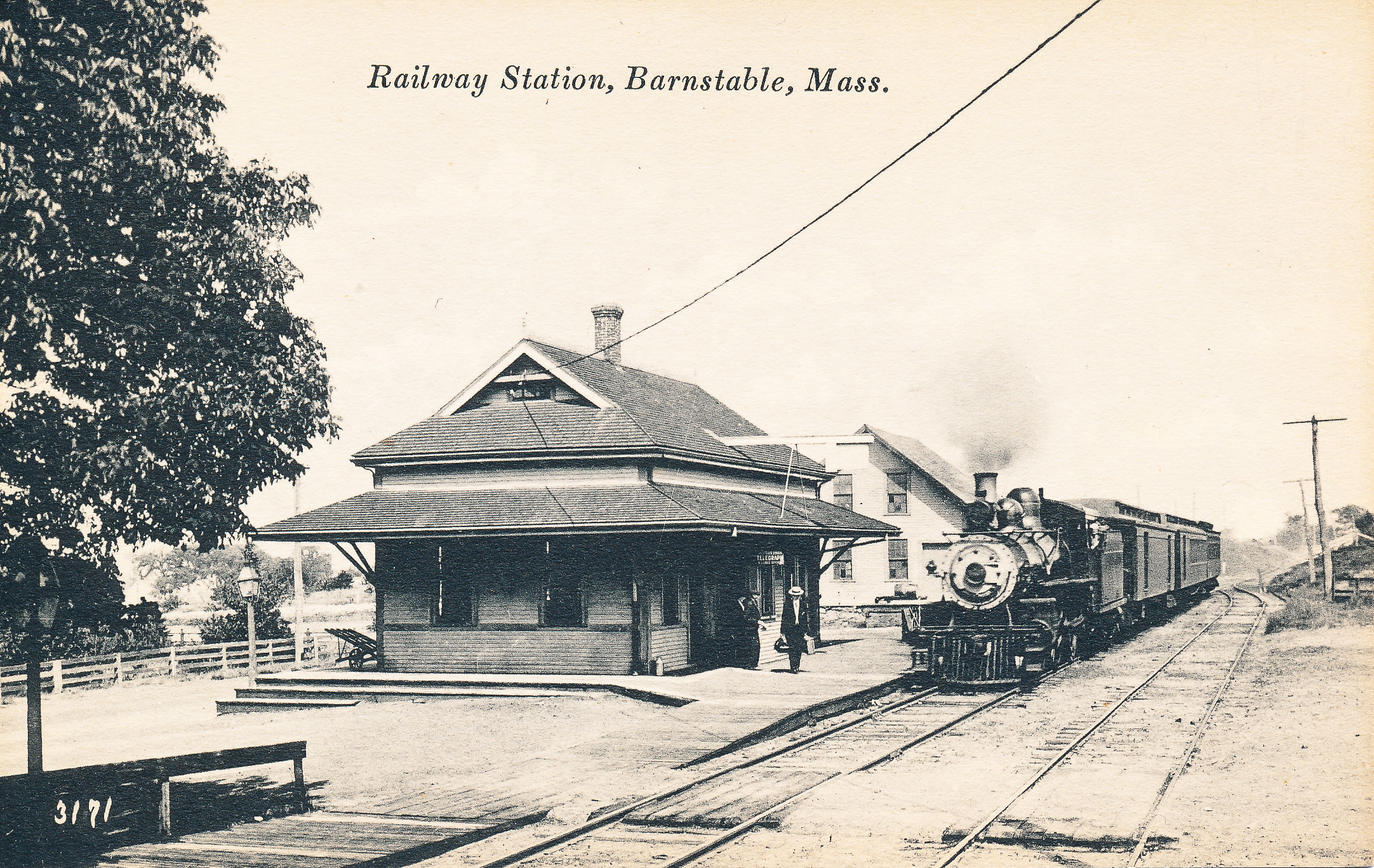 An early postcard showing the former Barnstable, Massachusetts train station on Cape Cod.